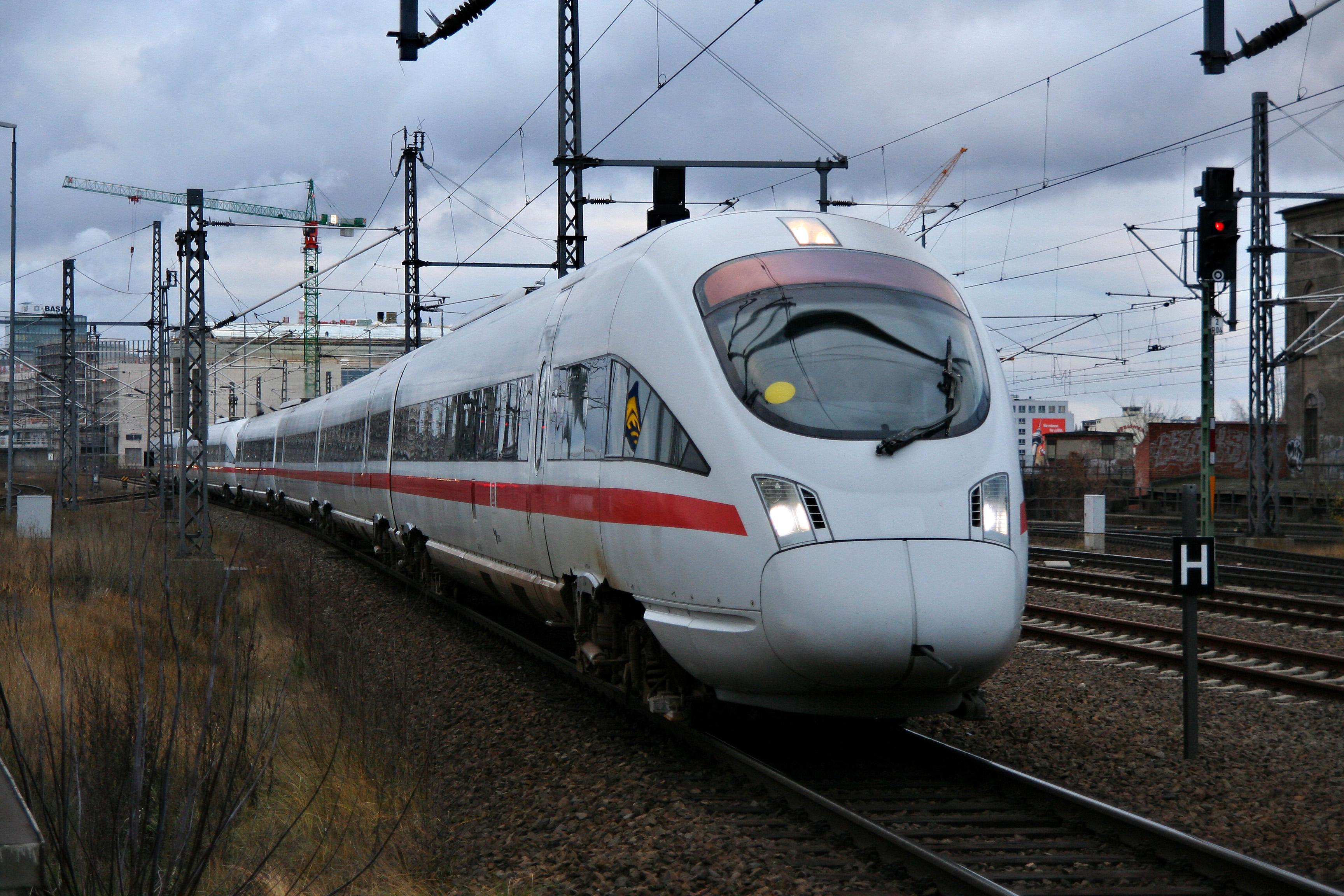 An ICE-TD approaches Berlin Ostbahnhof